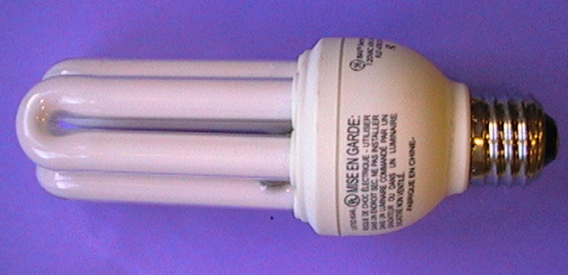 A standard straight shaped energy efficient Compact fluorescent lamp (colloquial = light bulb).